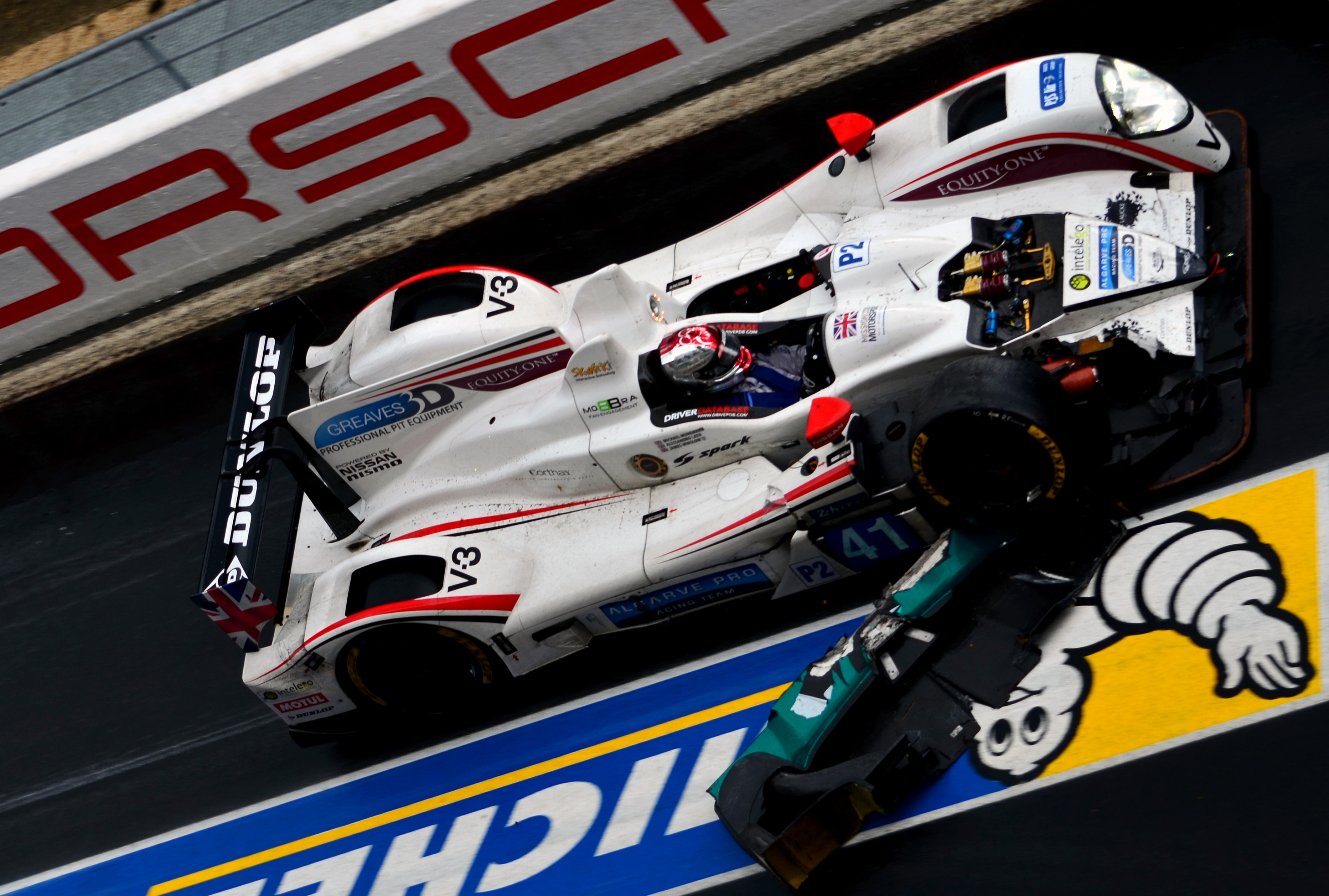 The damaged No. 41 Greaves Motorsport Zytek-Nissan in pit lane, dragging bodywork from another car during the 2014 24 Hours of Le mans